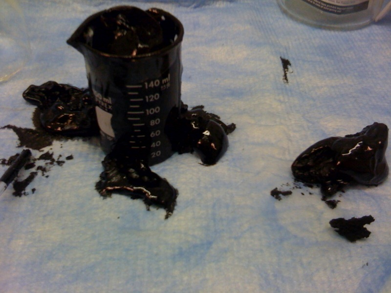 Sugar and sulfuric acid